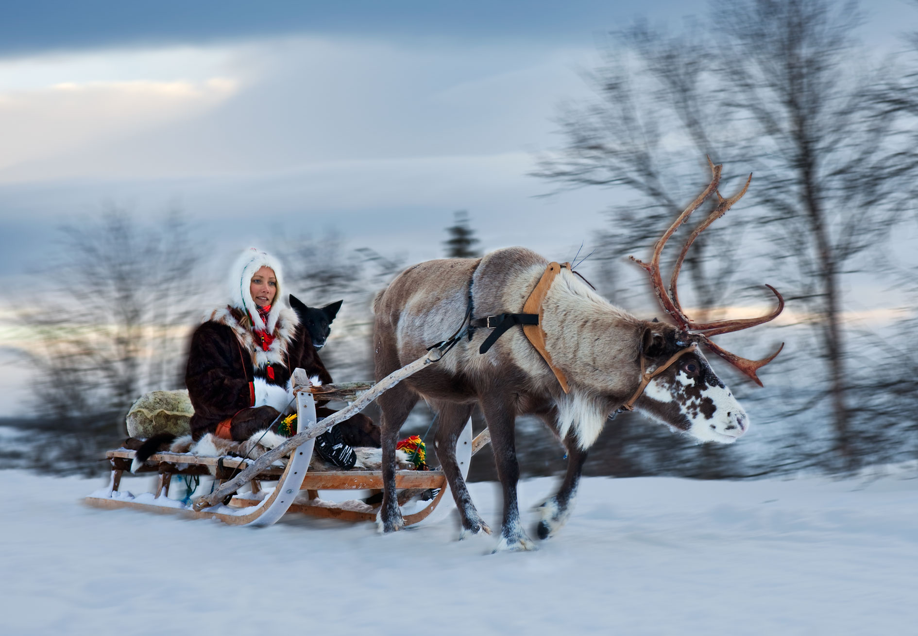 Southern Sami sleighride reindeer